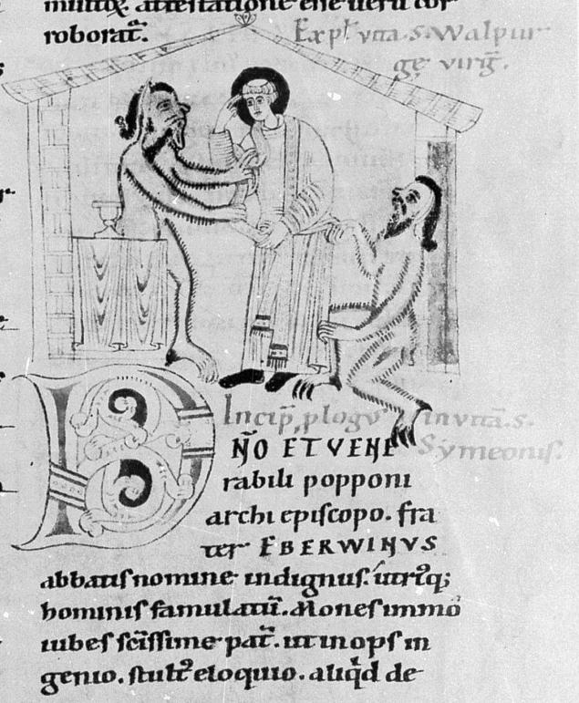 Picture of Simeon of Trier